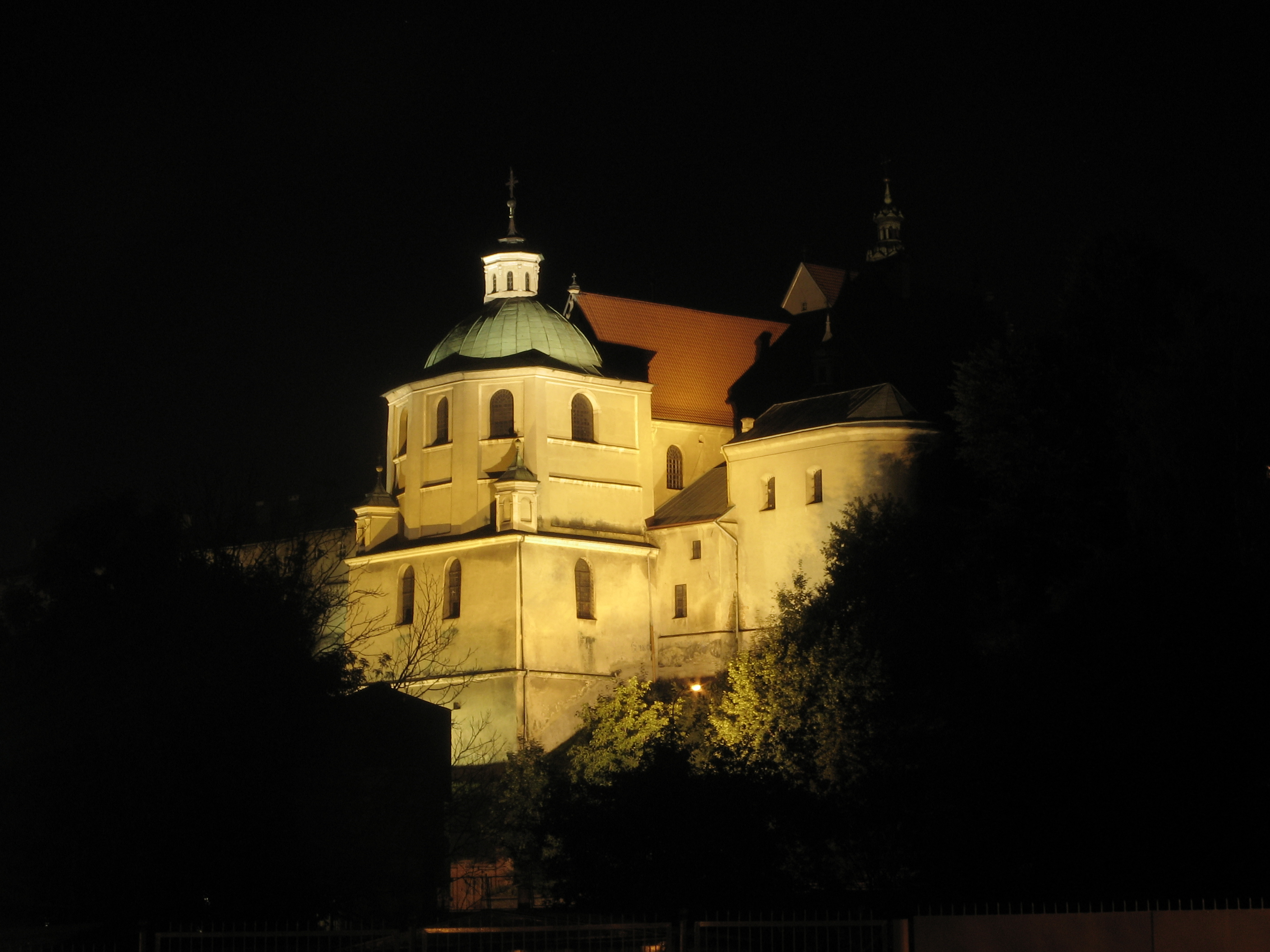 Dominican Church in Lublin by night.